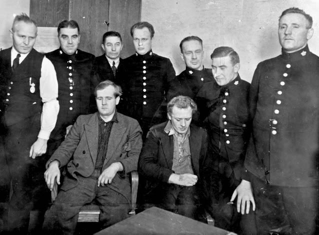 Proud police officers posing with Bildsköne Bengtsson (left) and Tatuerade Johansson (right) when the criminals are shown to the press after being caught in the fall of 1934 after several years of manhunt.